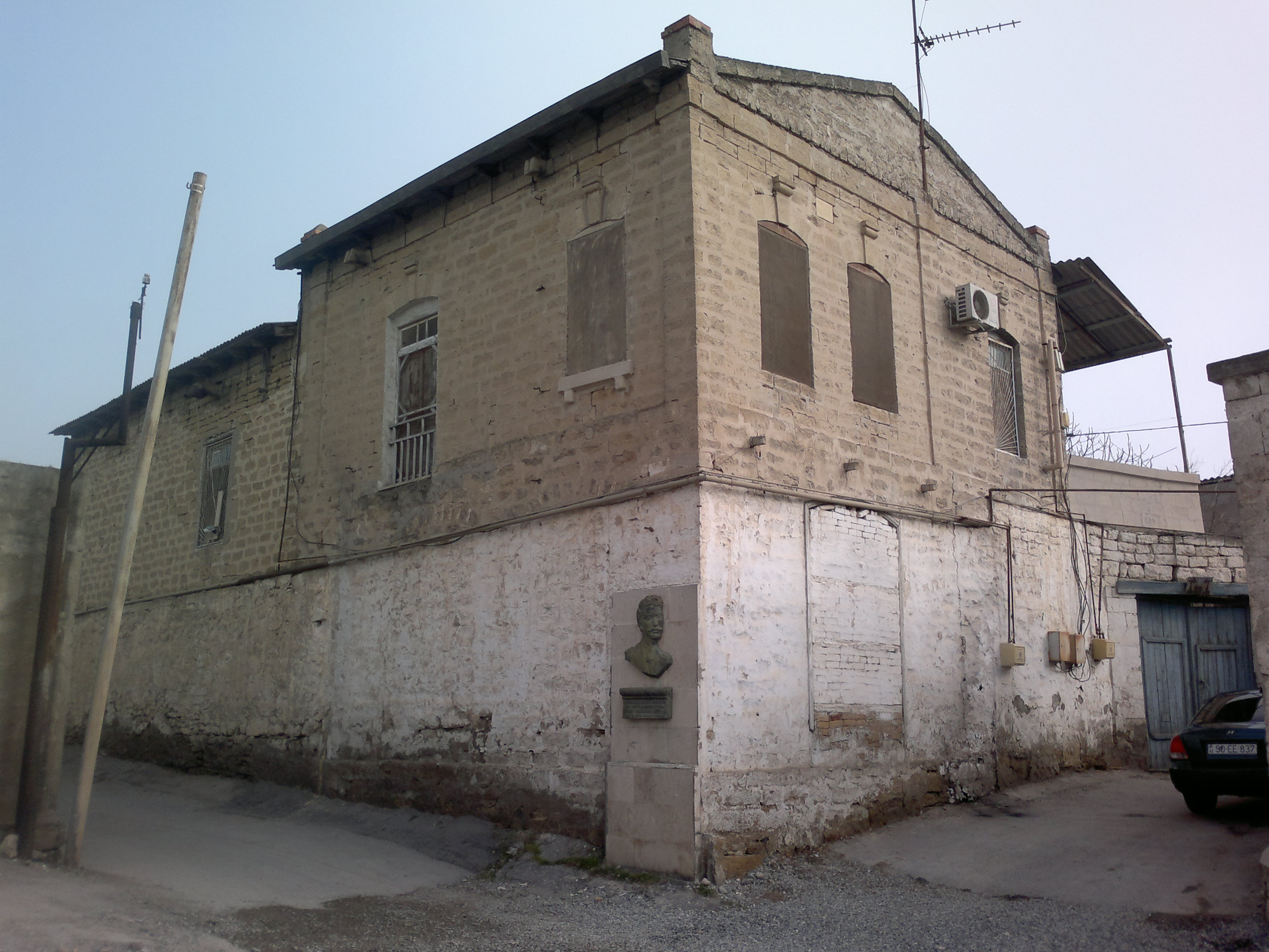 House where Abbasgulu Aga Bakikhanov was born in 1794.